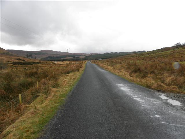 R253 at Altatraght Heading west towards Glenties